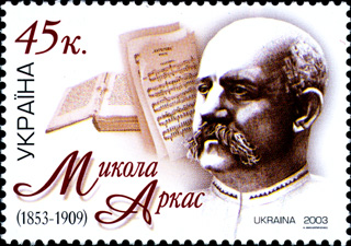 Stamp of Ukraine